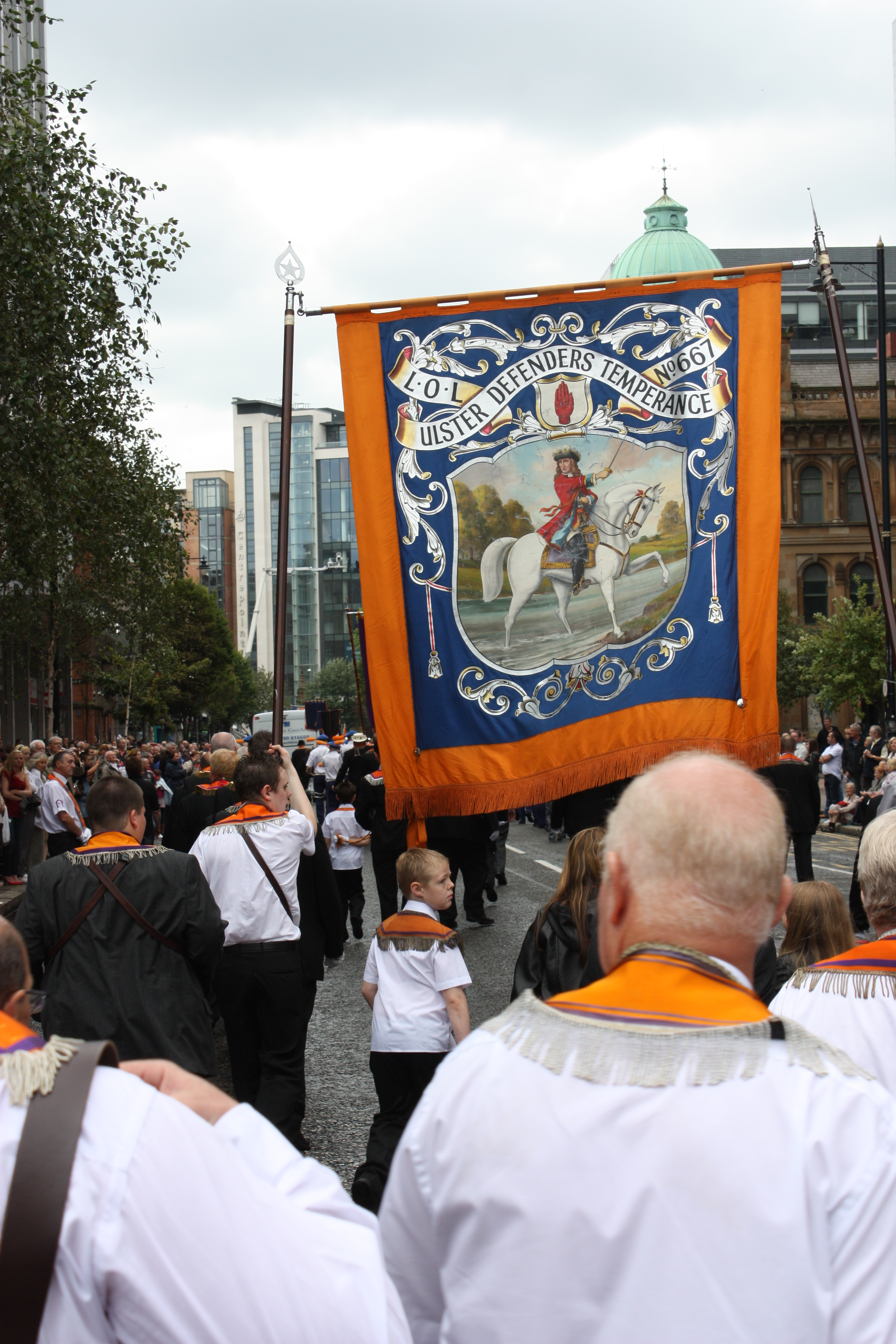 Banner, 12 July Orange Parades, Bedford Street, Belfast, Northern Ireland, July 2011 (Ulster Defenders Temperance Loyal Orange Lodge 667)